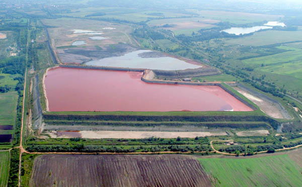 Ajka, alumina waste pond, Veszprém county, Hungary, aerial photography This picture is © copyright Civertan Grafikai Stúdió (Civertan Bt.), 1997-2006.; has been verified that Commons user Civertan is controlled by Civertan Grafikai Stúdió and that it is allowed to relicense content copyrighted to this organization. This work is free and may be used by anyone for any purpose. If you wish to use this content, you do not need to request permission as long as you follow any licensing requirements mentioned on this page.